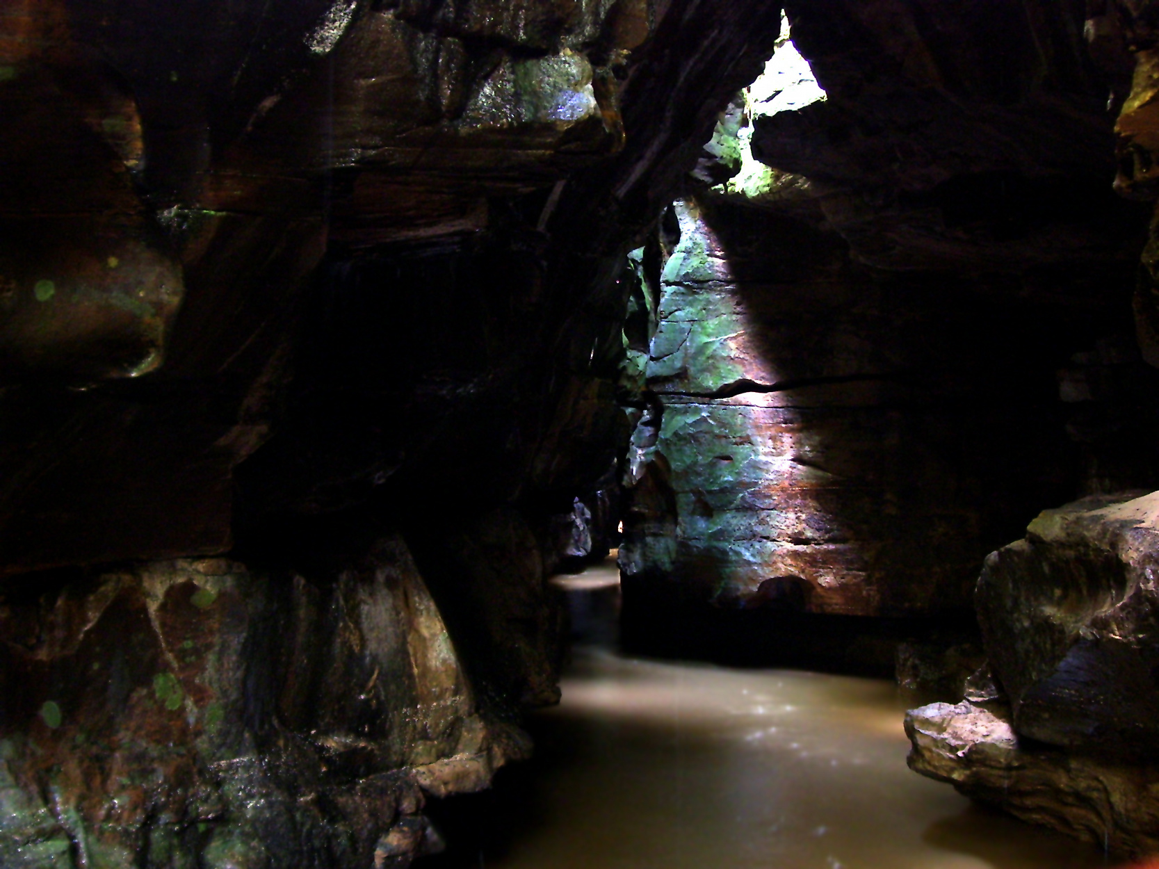 Itararé River, Itararé, São Paulo, Brasil.